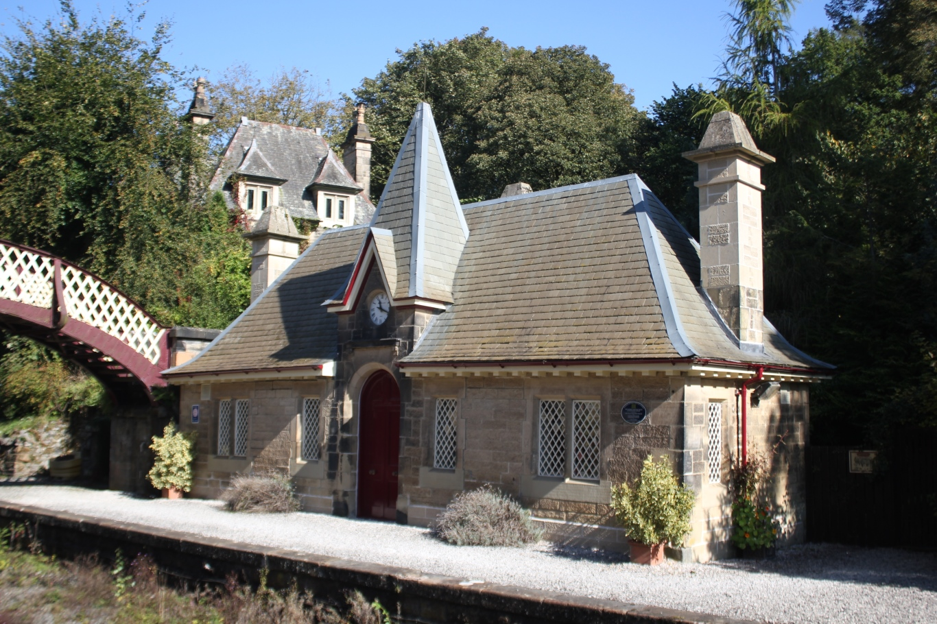 The original waiting room, built in 1849,at Cromford station. The station master's house on the hill behind shares the same decorative style.